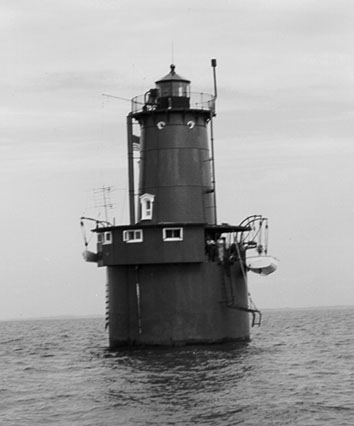 Undated picture of Bloody Point Bar Light from USCG website